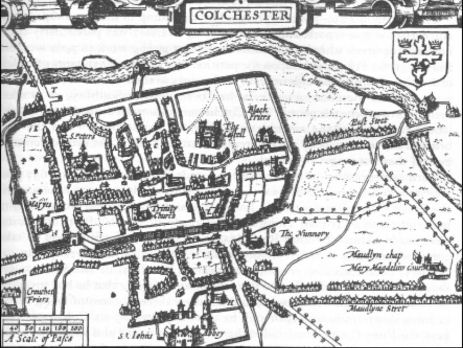 Map of Colchester of 1610 showing the approximate location of the bell-foundry of Miles Graye